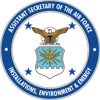 Logo Round